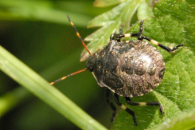 Rhacognathus punctatus from Commanster, Belgian High Ardennes .